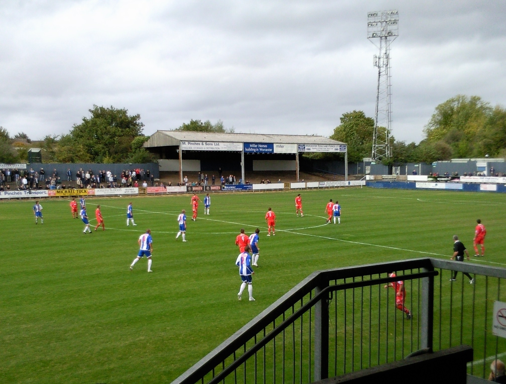 Worcester City F.C. playing Dover Athletic F.C. on 3 October 2009 Source I took this image myself